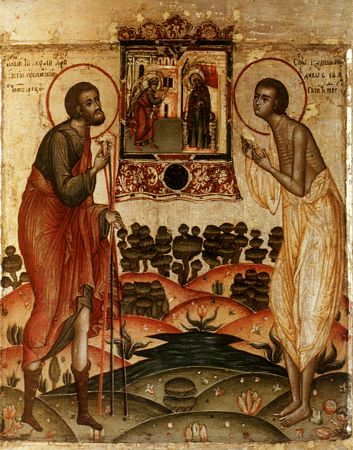 prayer of st. Procopius and John from Ustug